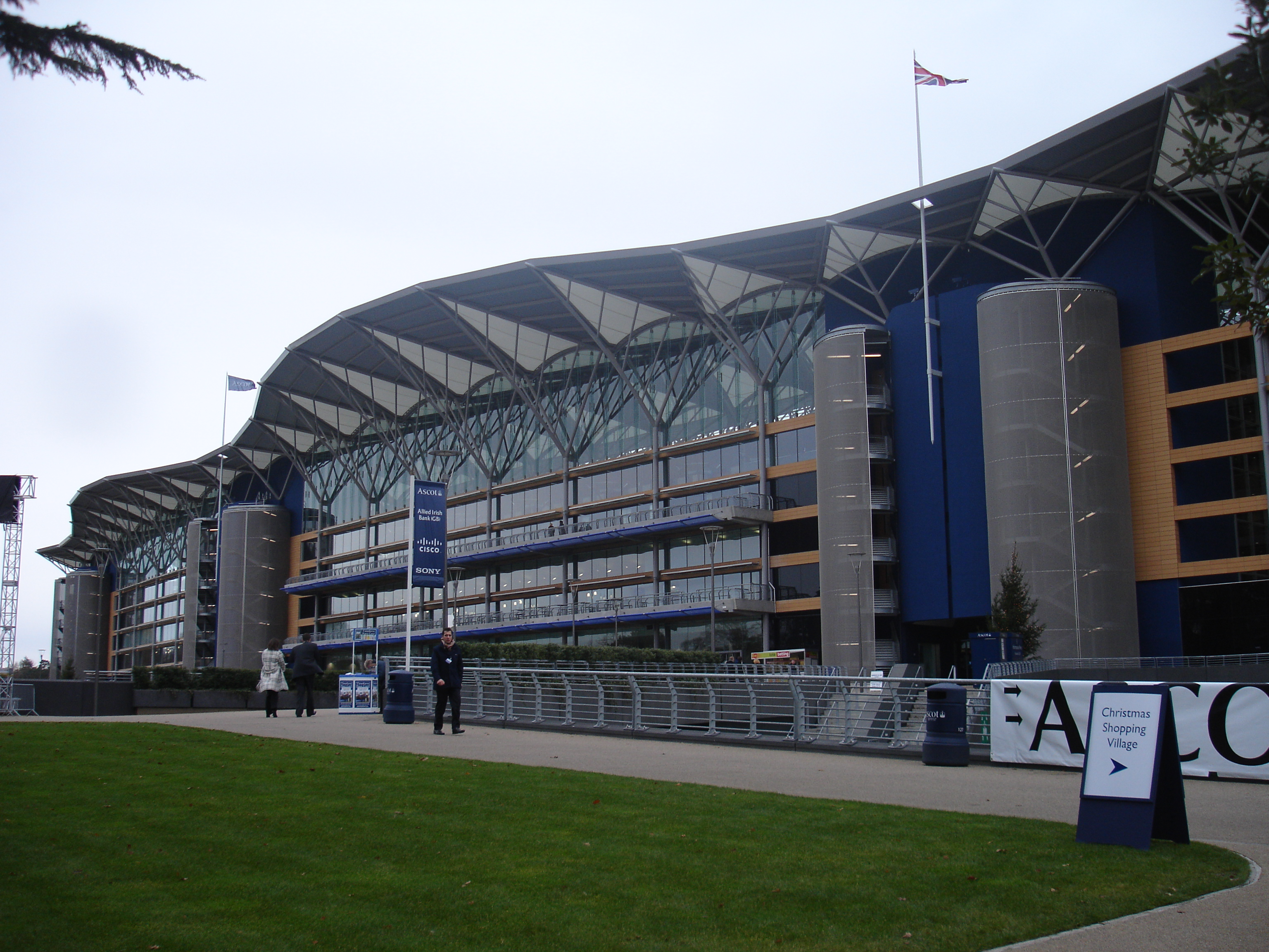 Photograph of the Stand at Ascot Racecourse, Berkshire, England